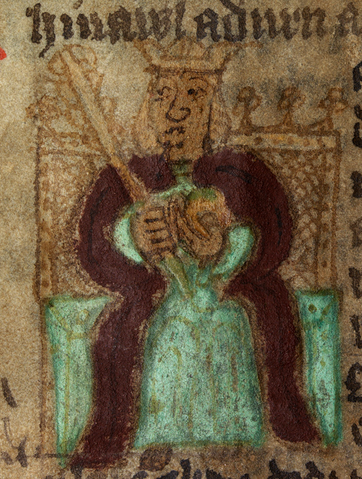 Constans. A crude illustration from a 15th century Welsh language version of Geoffrey of Monmouth’s highly influential Historia Regum Britanniae (‘History of the Kings of Britain’)